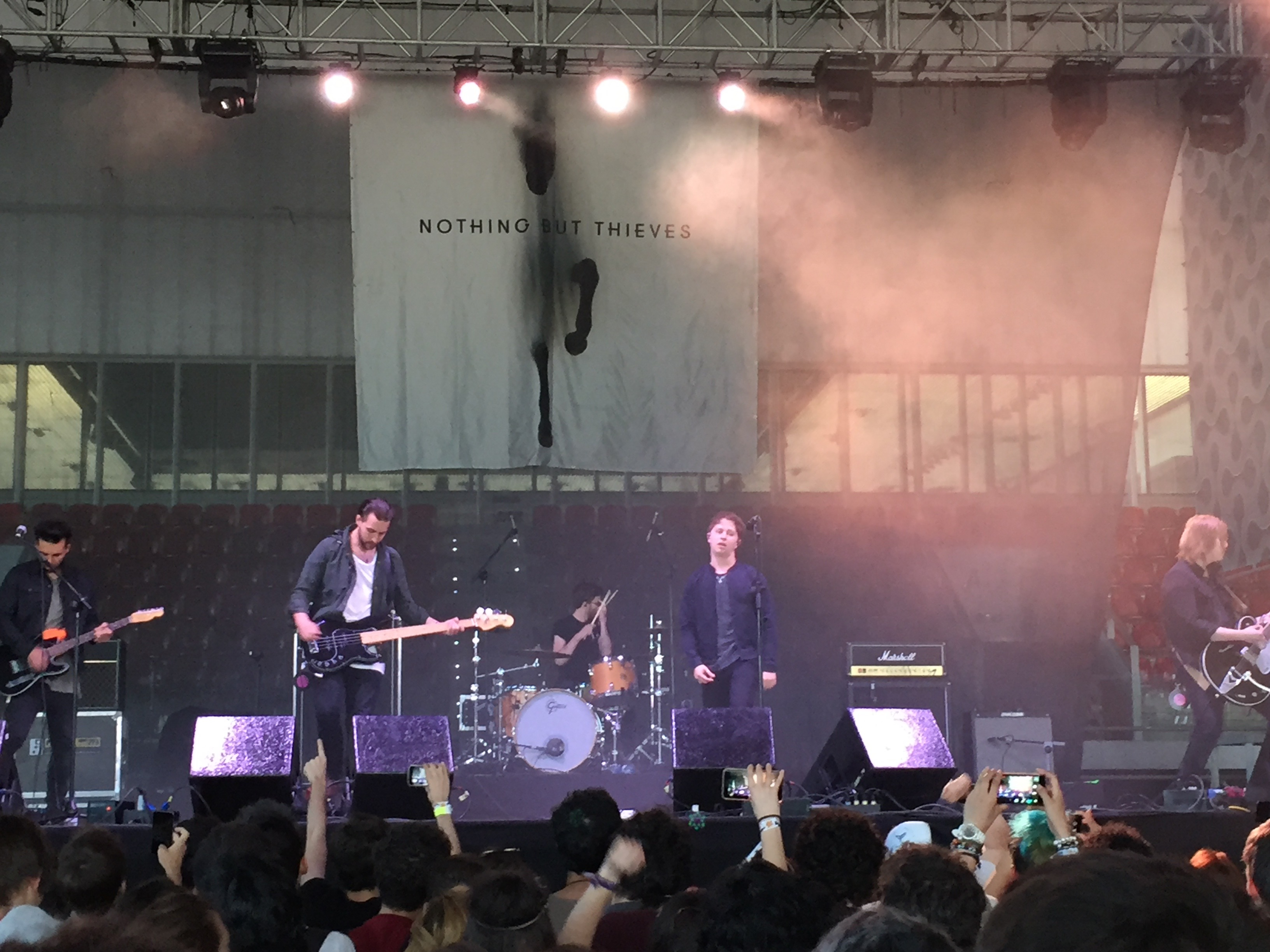 Nothing but thieves playing live at Mad Cool Festival in Madrid, Spain on June 18 2016.